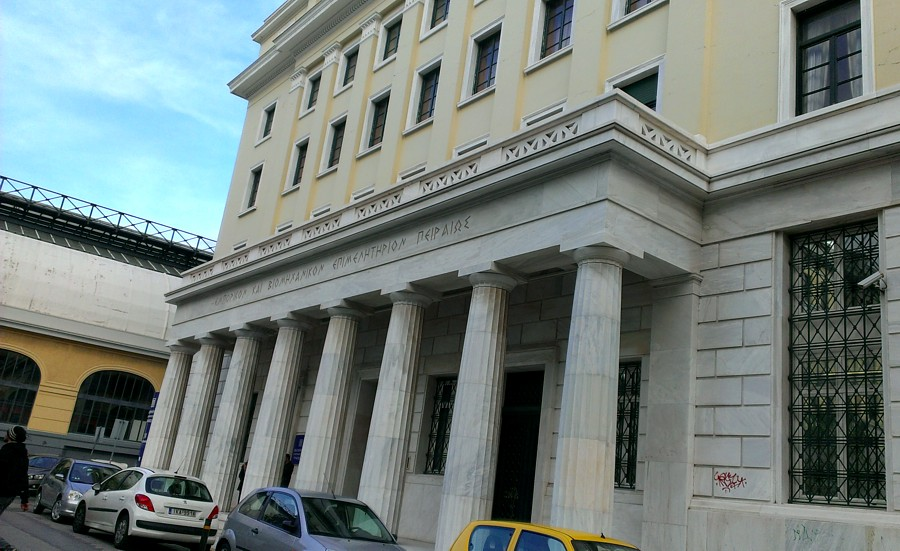 epimelitirio